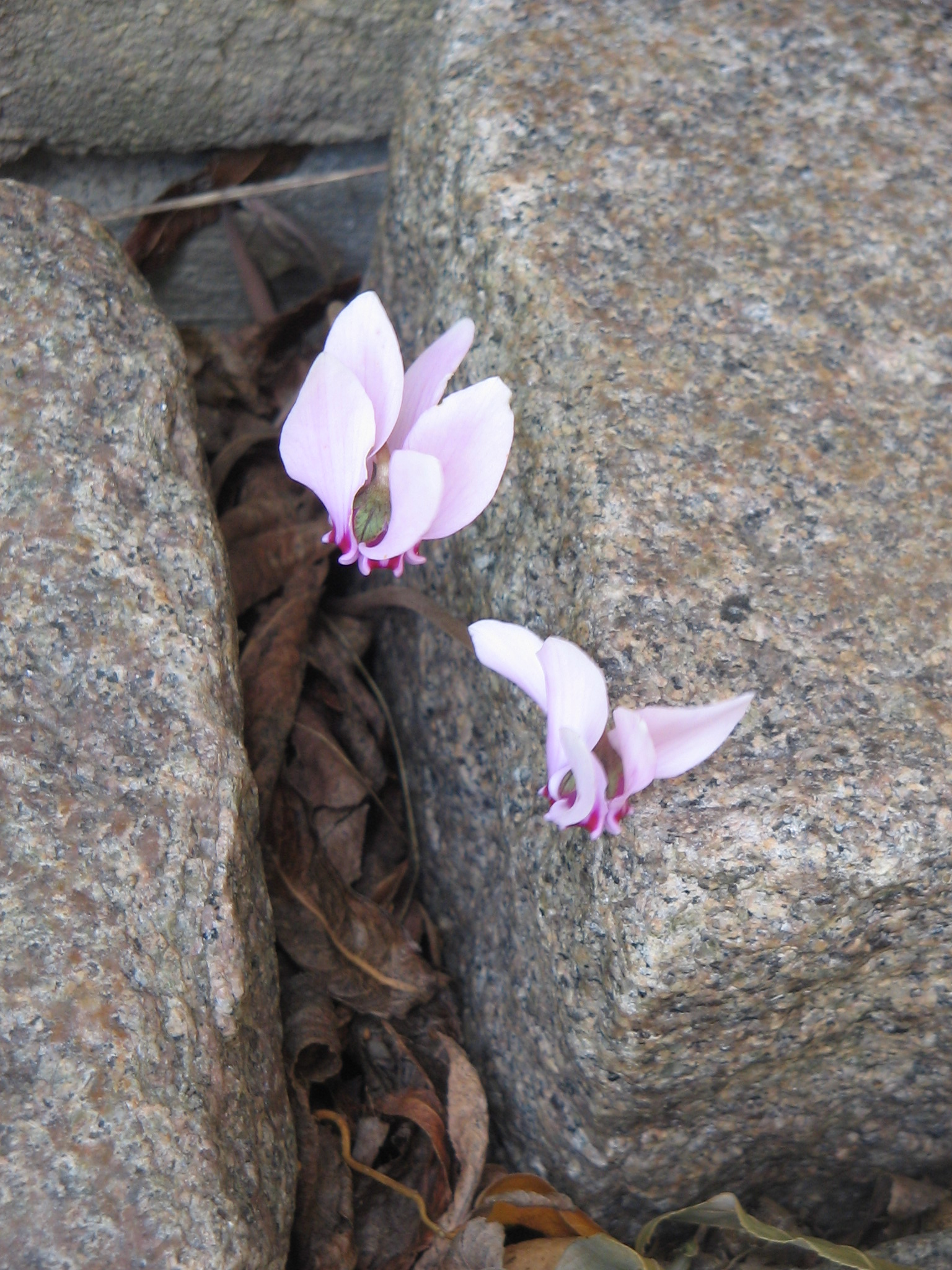 Cyclamen hederifolium seedling between paving stones